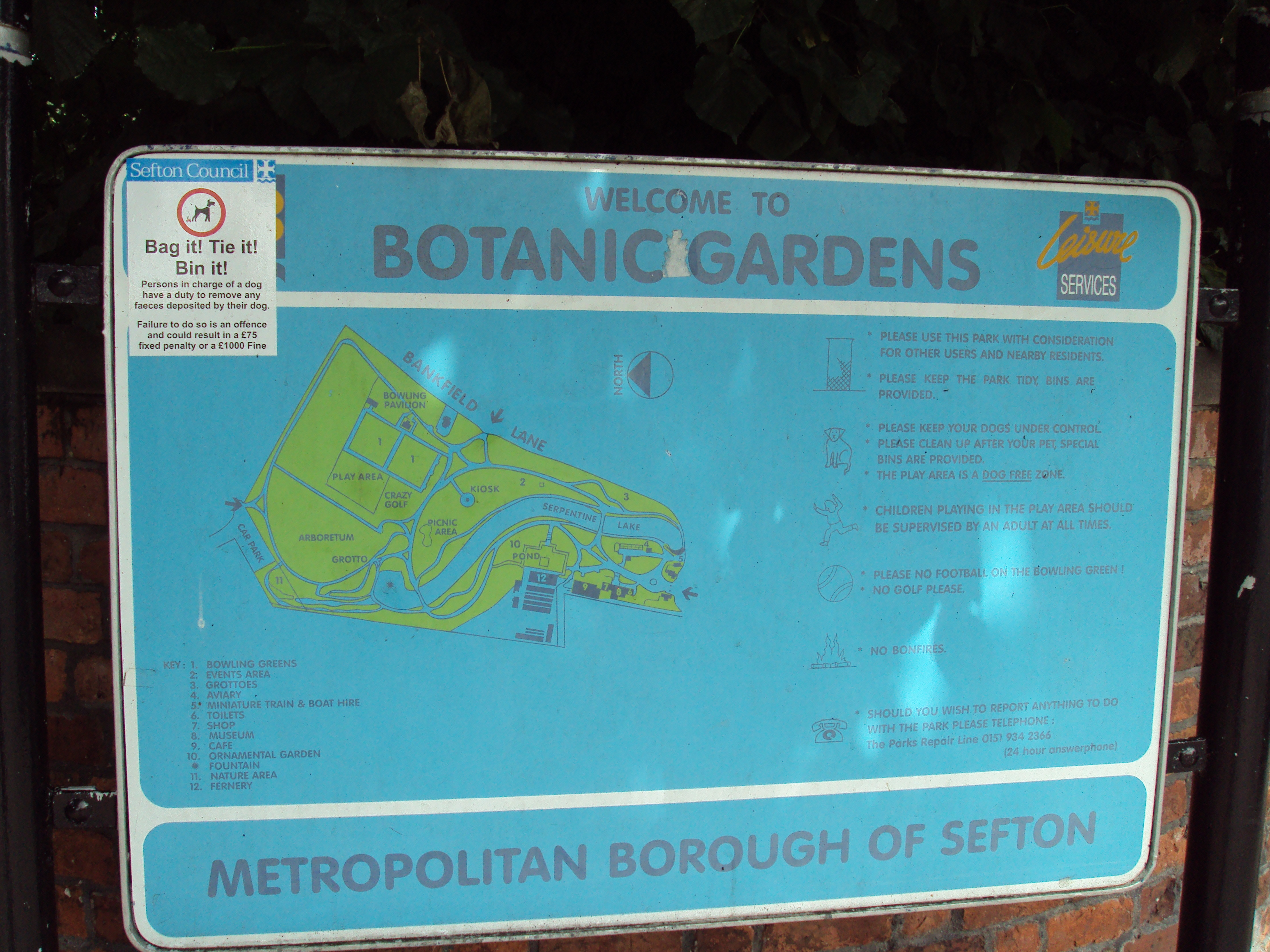 Sign at Bankfield Road entrance to the Botanic Gardens at Churchtown, Southport, Merseyside.